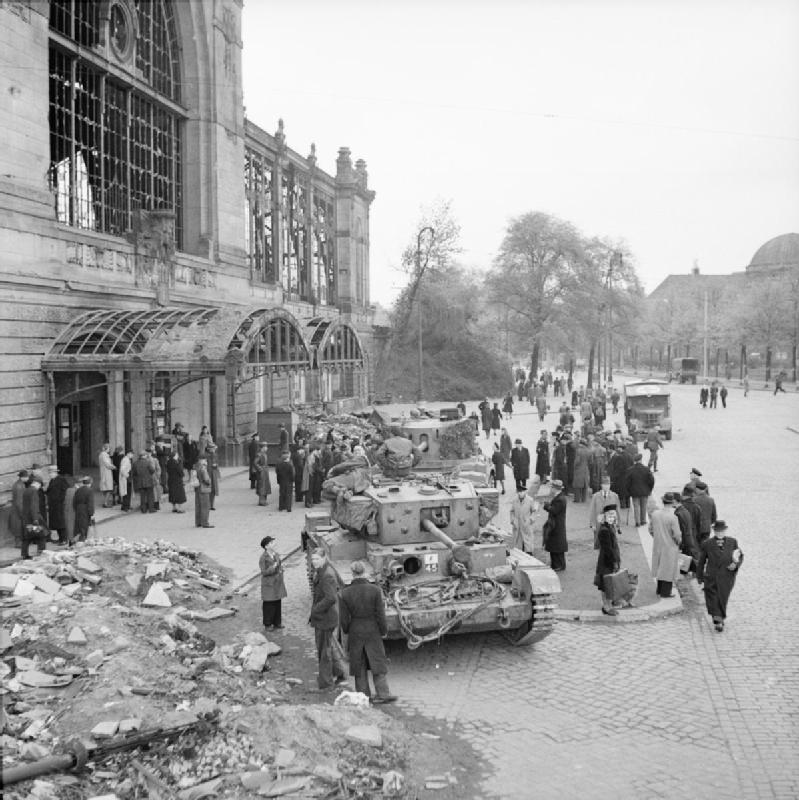 A Cromwell tank and Challenger tank of 8th Hussars, 7th Armoured Division, surrounded by German civilians outside Dammtor railway station in Hamburg.